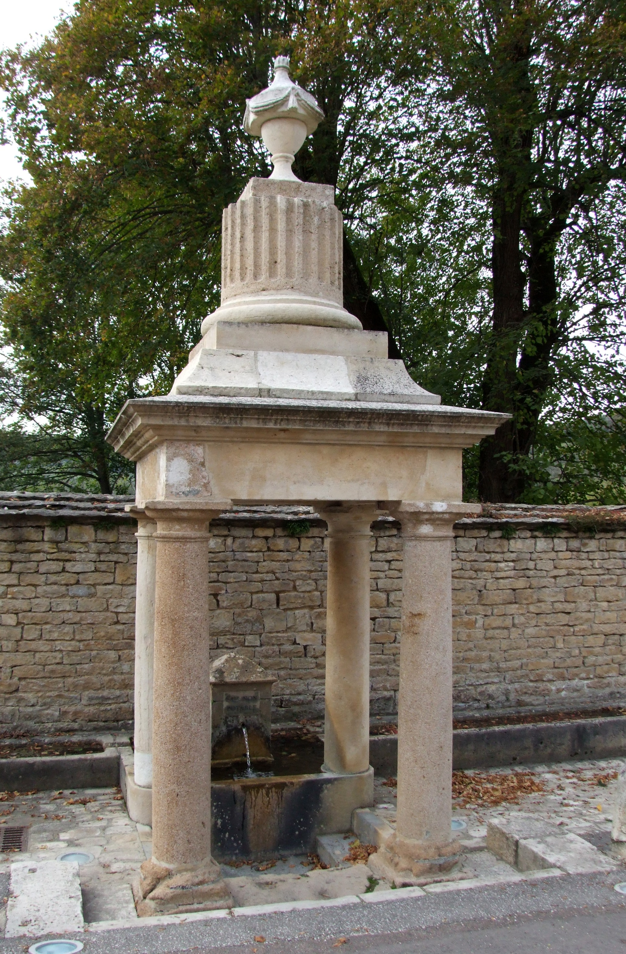 Fontaine de Baulme-la-Roche, Burgundy, FRANCE